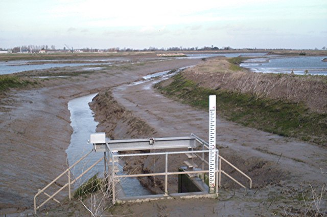 "New" wetland, Wallasea - Low tide As 303731 but with less water. 6 months after inundation this area still looks like a building site with obviously bulldozed edges. Fair few birds on it this morning including half a dozen egrets and some shelduck. How long will it take to regenerate? Watch this space.